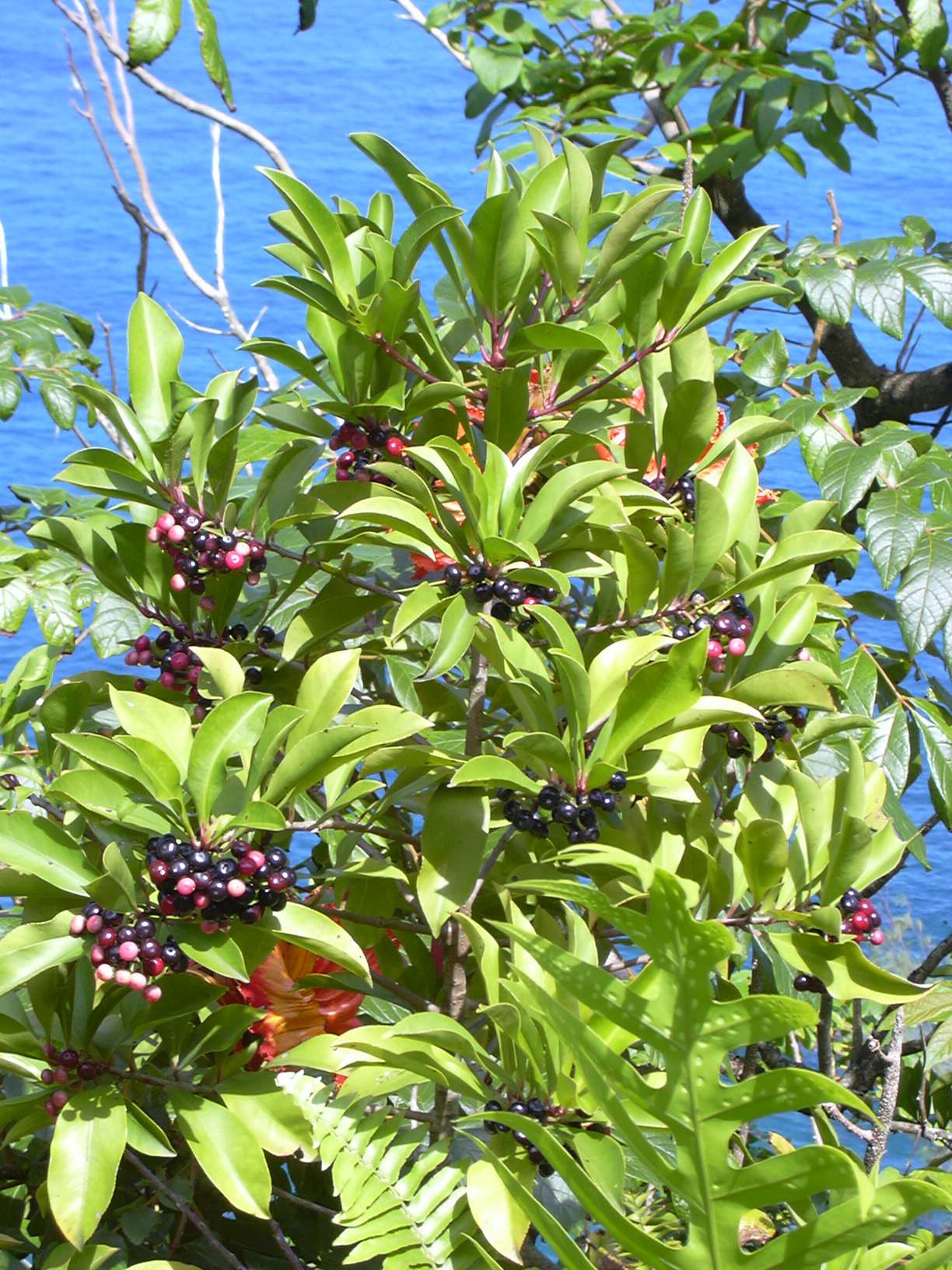 Ardisia elliptica (fruits). Location: Maui, Hana Hwy